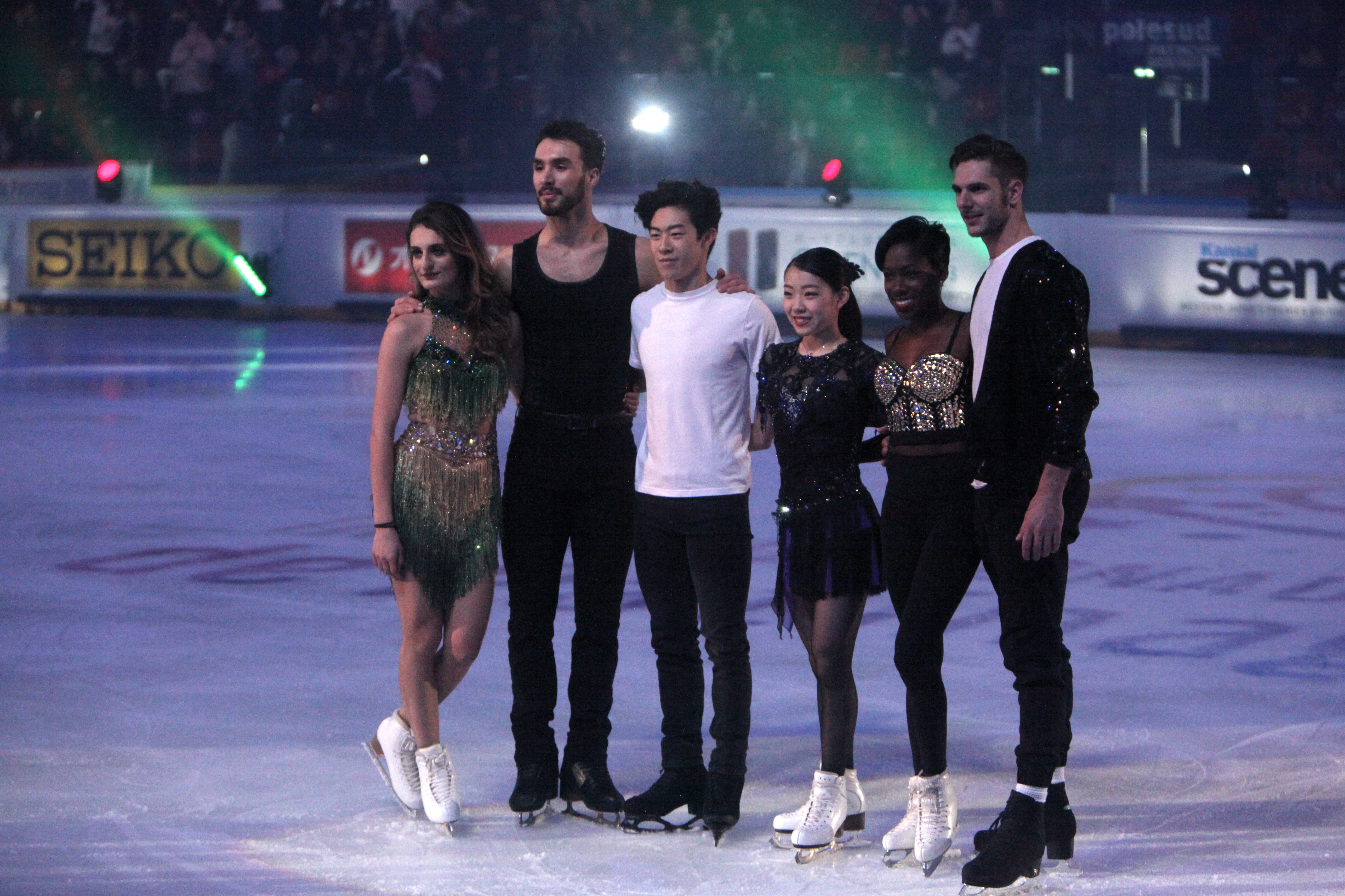 The winners of the Internationaux de France de Patinage 2018.